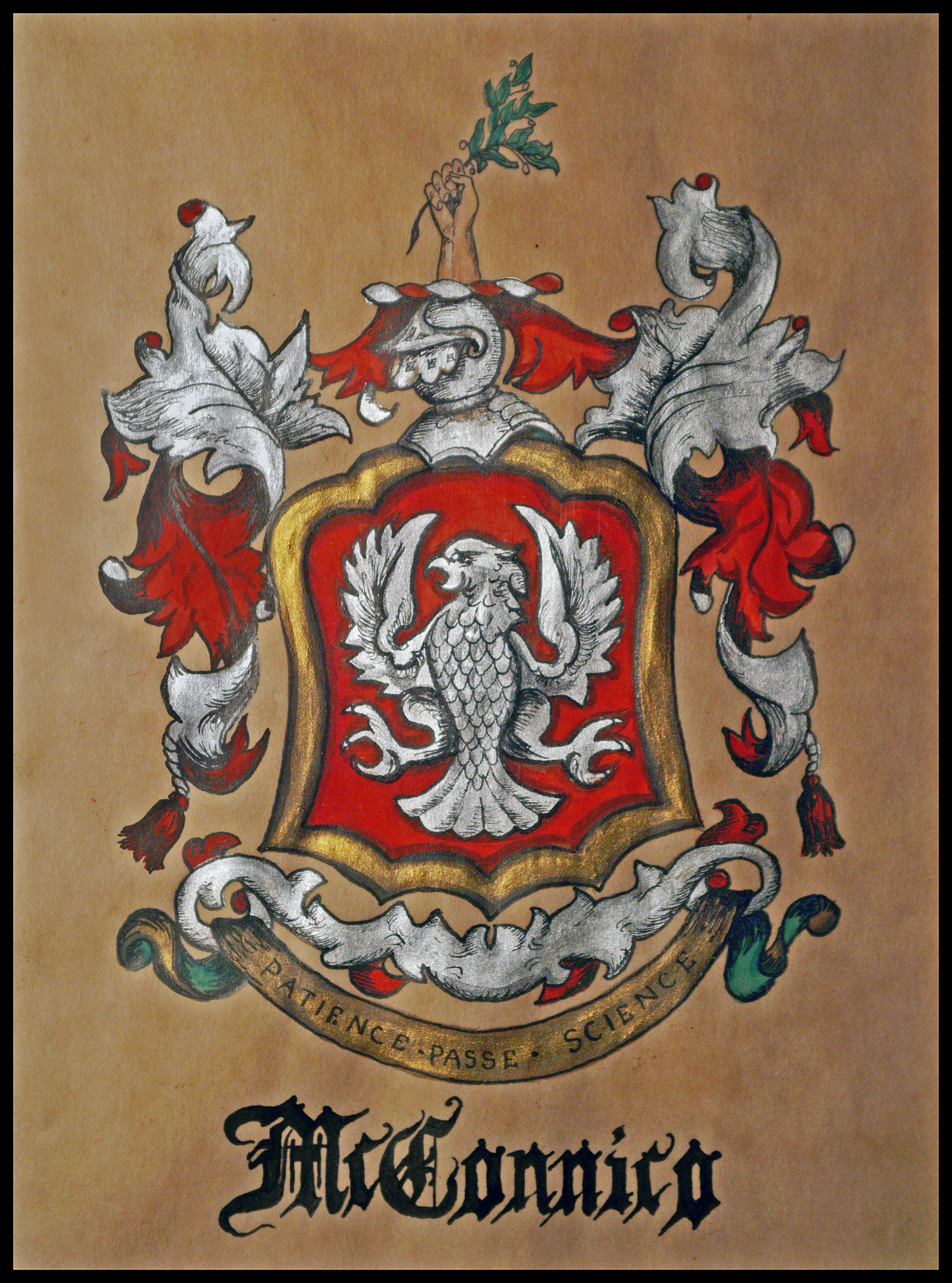 McConnico coat of arms, handpainted (circa 1920's). The slogan "Patience Passe Science" translates to "Patience Surpasses Knowledge".